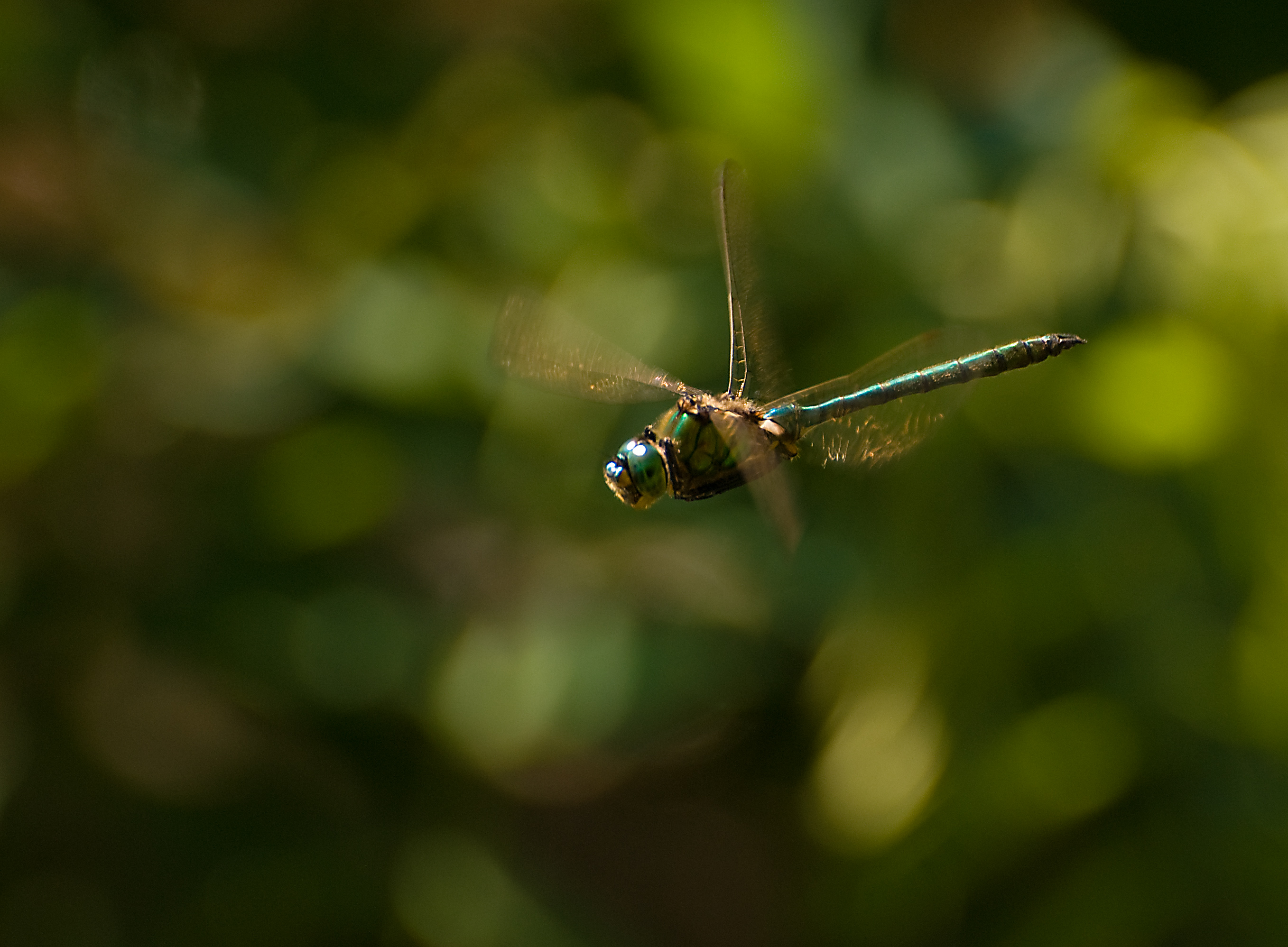 Brilliant Emerald (forest pond, Stuttgart, Germany). Thanks to Fice for help with the identification.